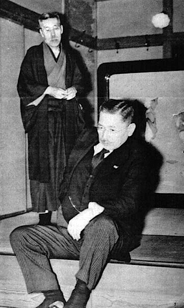 Japan’s Lord Keeper of the Privy Seal Kurahei Yuasa visits Chairman of the Privy Council Kiichirō Hiranuma in preparation to visit the king-maker Lord Saionji for final selection of the next prime minister.